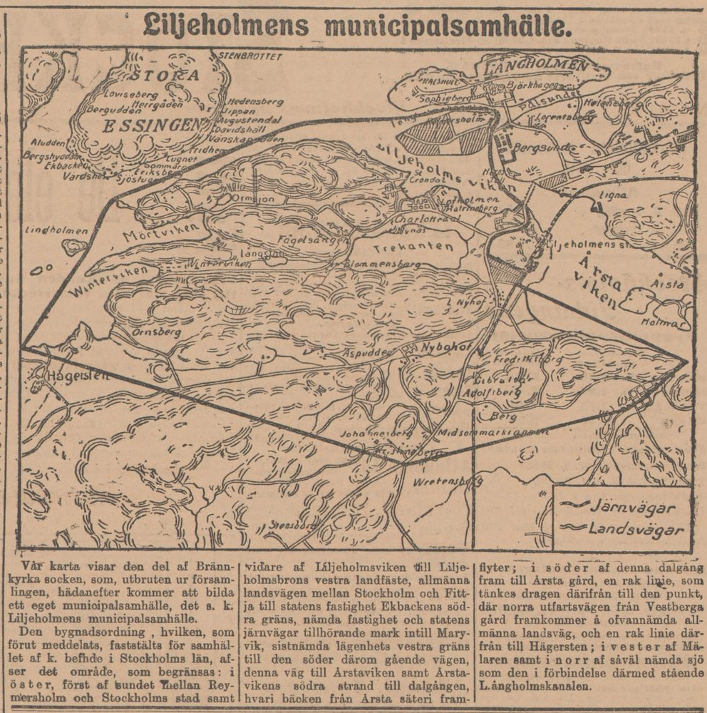 Liljeholmens Municipalsamhälle was a administrative unit in Stockholm, Sweden. The text is in Swedish. The picture is a part of the newspaper Stockholms-Tidningen from 7:th of November 1899, page 2. The whole page (and newspaper) can be viewed here